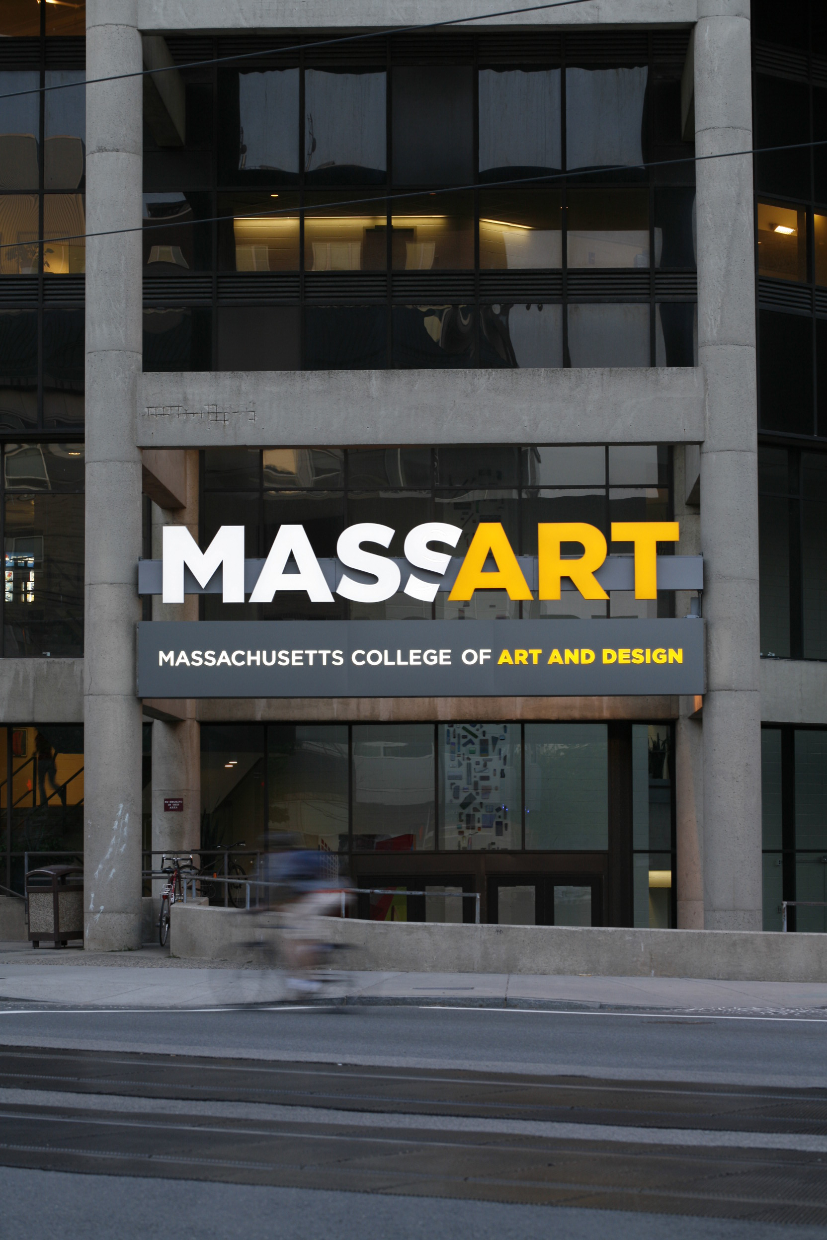 Entrance to the towers at MassArt